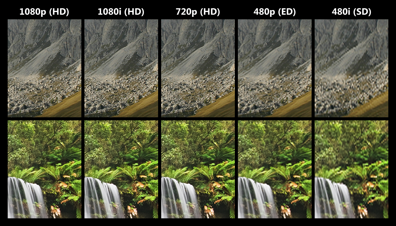 A comparison of high definition, enhanced definition, and standard definition resolutions as if it were viewed on a fixed-pixel 1080p display. Should be viewed at full size to properly compare them. Original images used in this comparison are File:Passo di Giau.jpg and File:Russell Falls 2.jpg